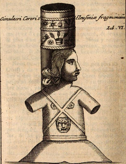 Caryatid of the Lesser Propylaea at Eleusis, engraved by George Wheler